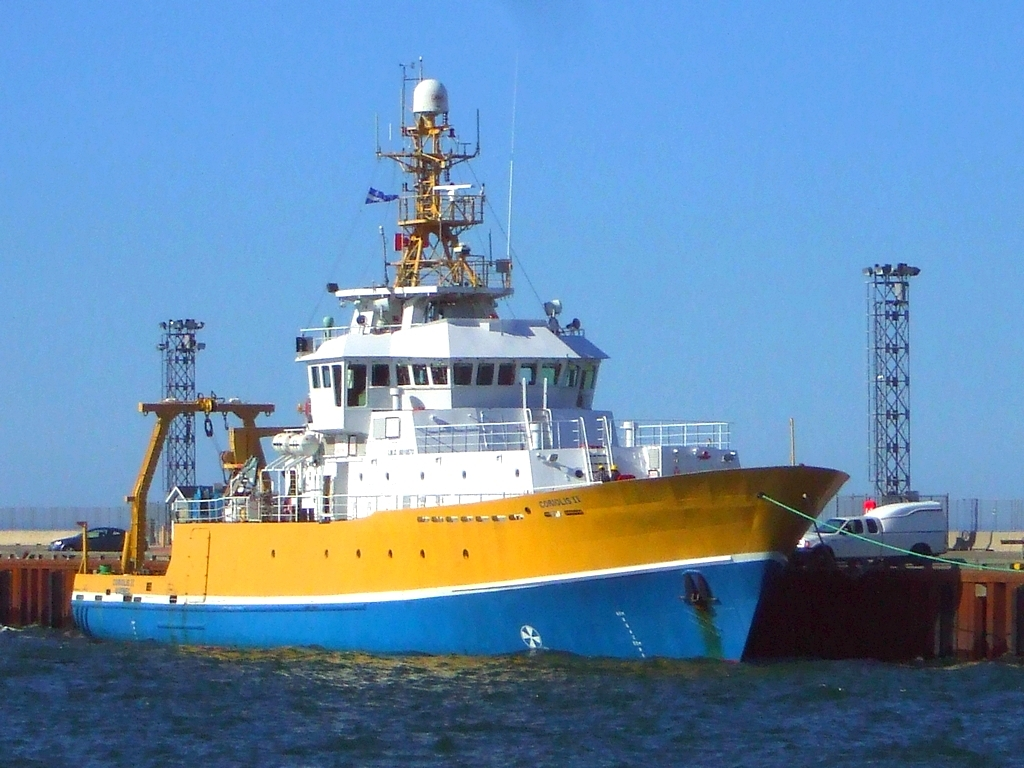 Coriolis II research vessel at Rimouski harbour, Quebec, Canada.